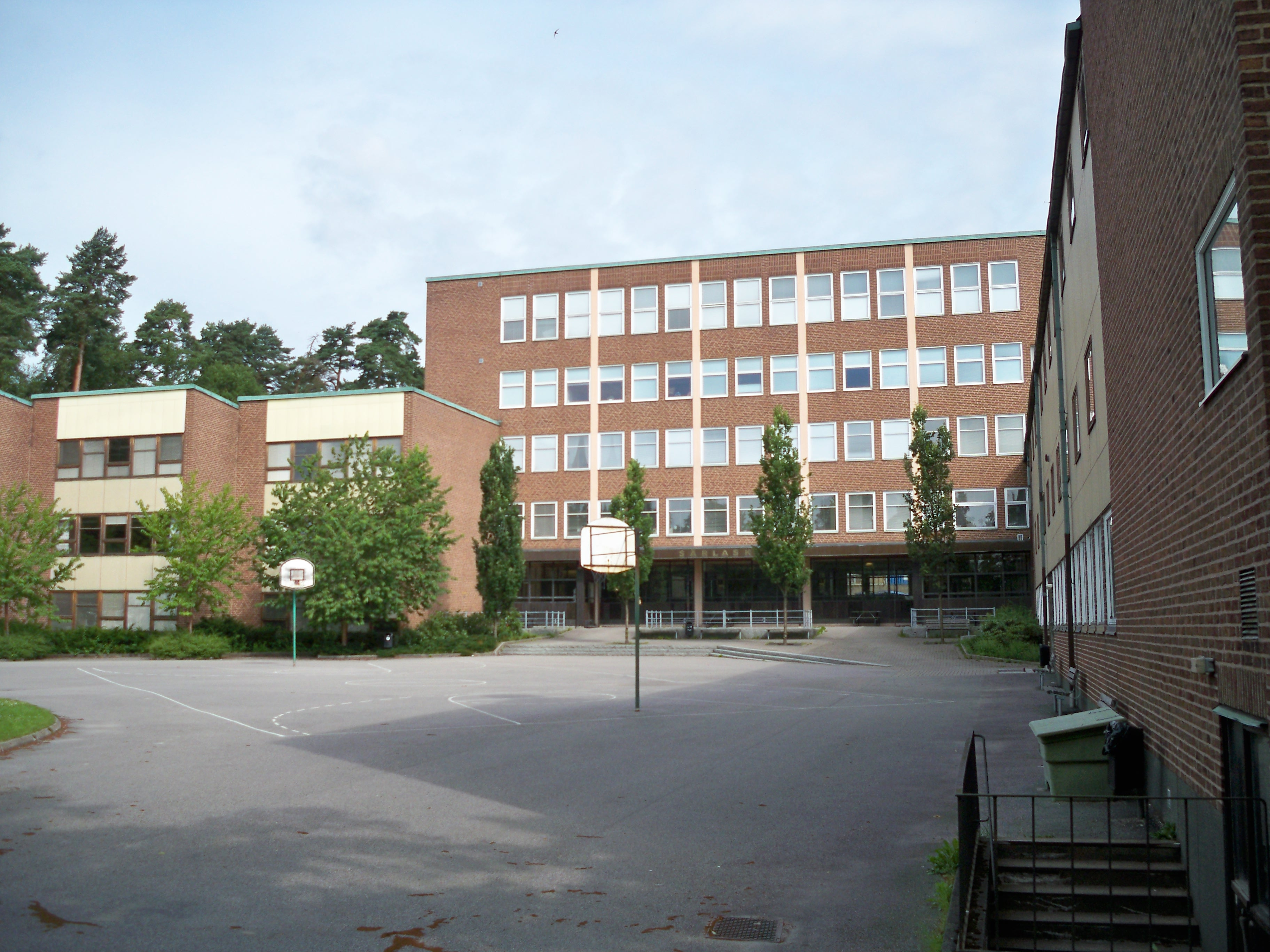 Särlaskolan is an elementary school in the city of Borås, Sweden. It was founded in 1948.